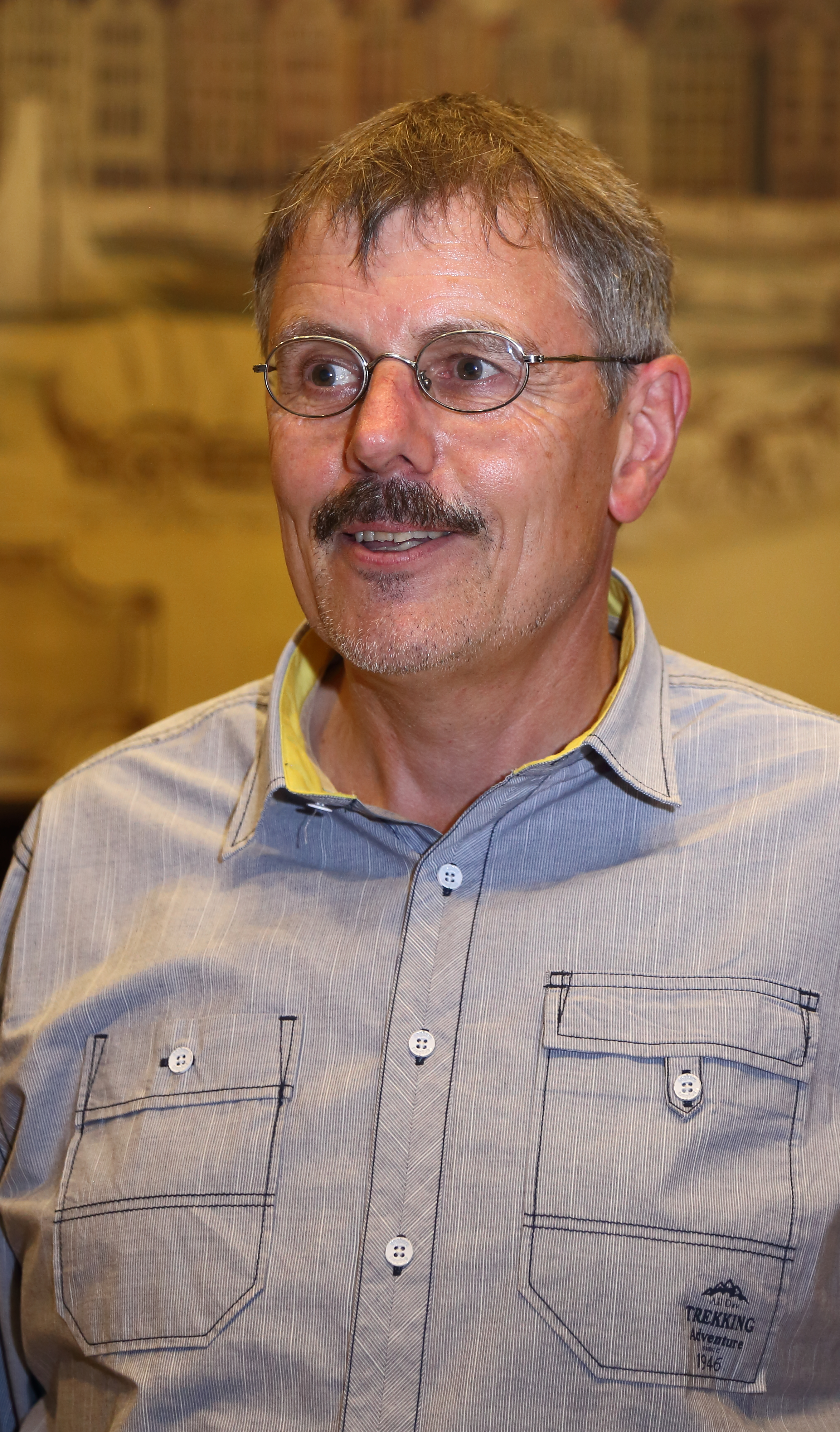 German historian Dr Andreas Eiynck in Telsemeyer House (Haus Telsemeyer) during a stay in Mettingen, Kreis Steinfurt, North Rhine-Westphalia, Germany.